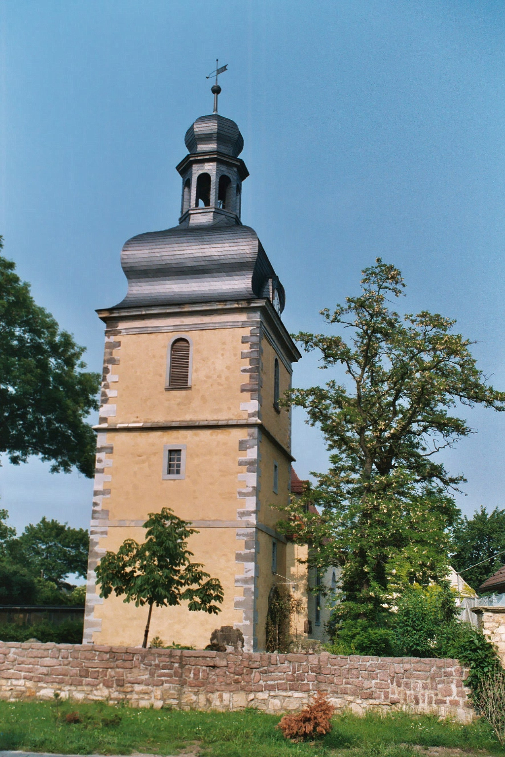 Zscherben (Teutschenthal), the church St. Cyriakus